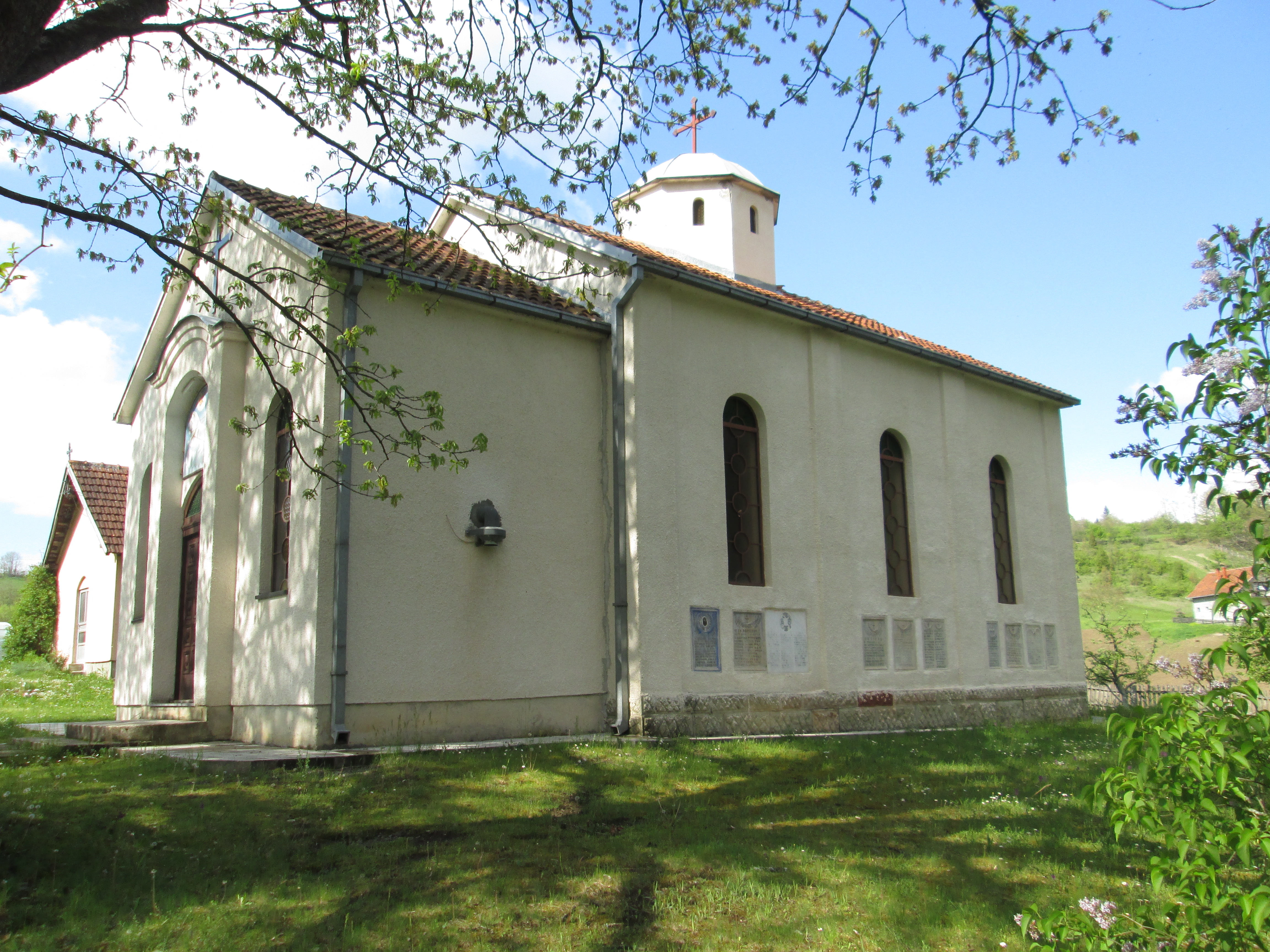 Church, Kamenica Српски (ћирилица): Црква, Каменица